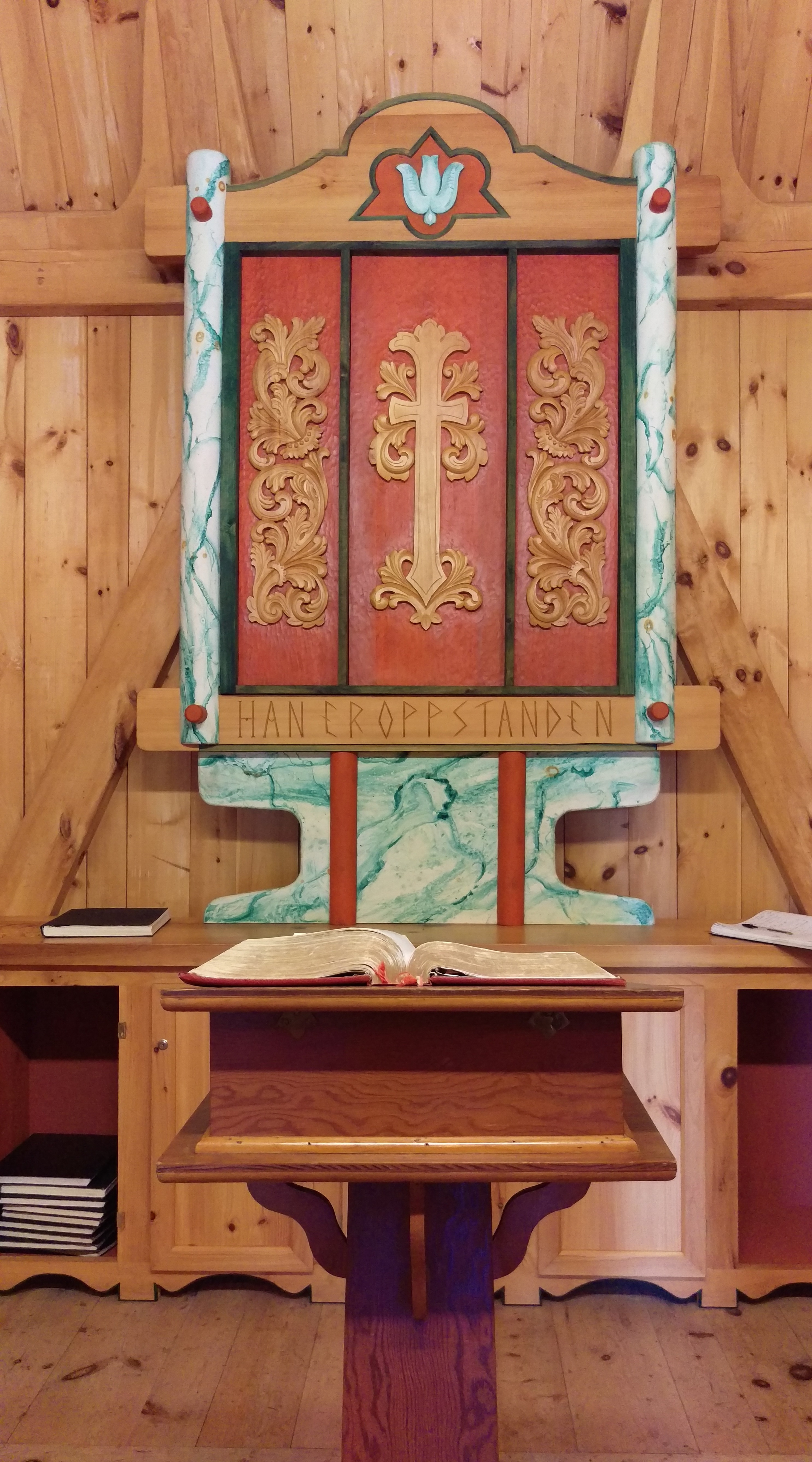 Washington Island Stavkirke chancel